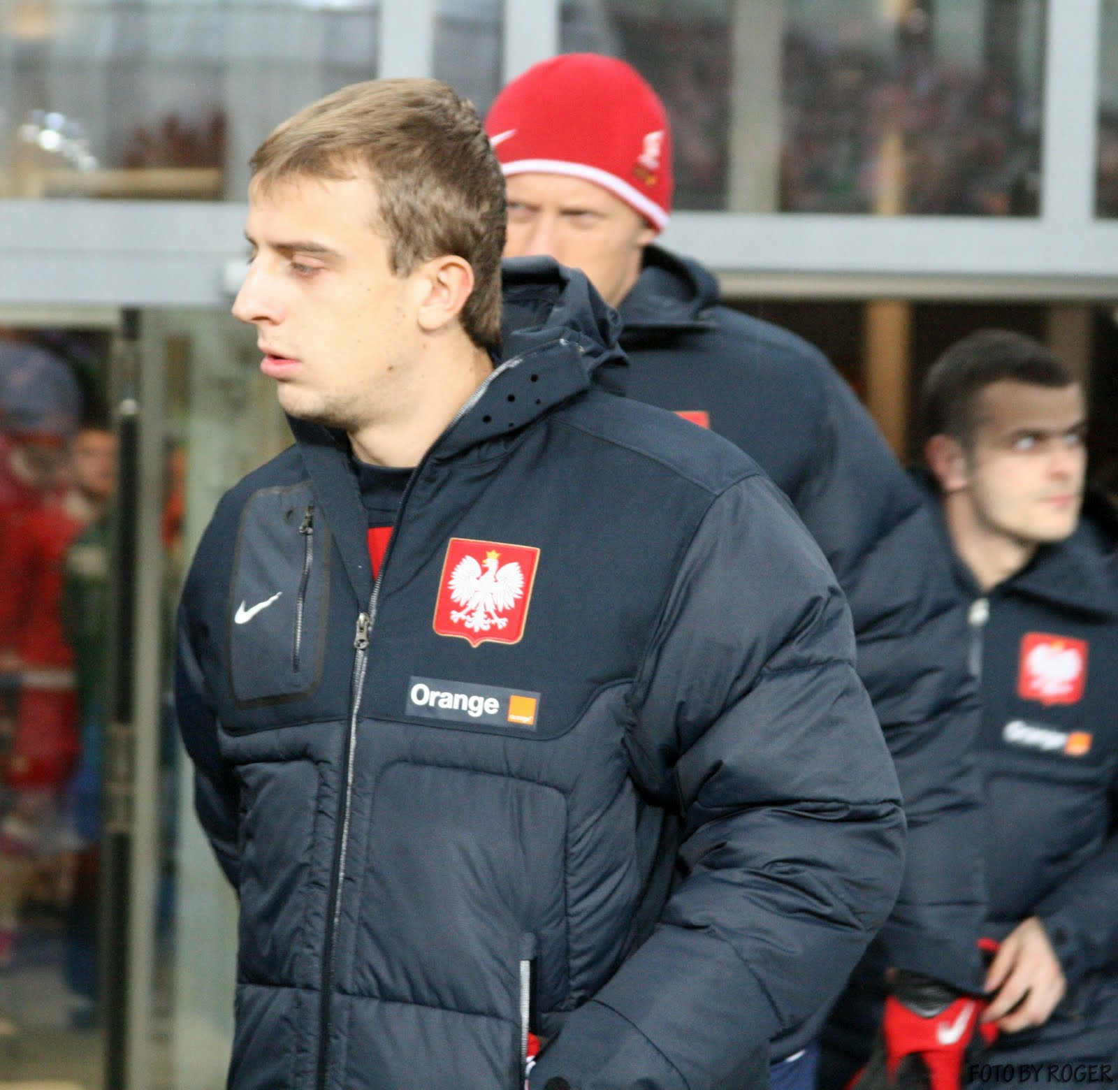 Polish football player Kamil Grosicki